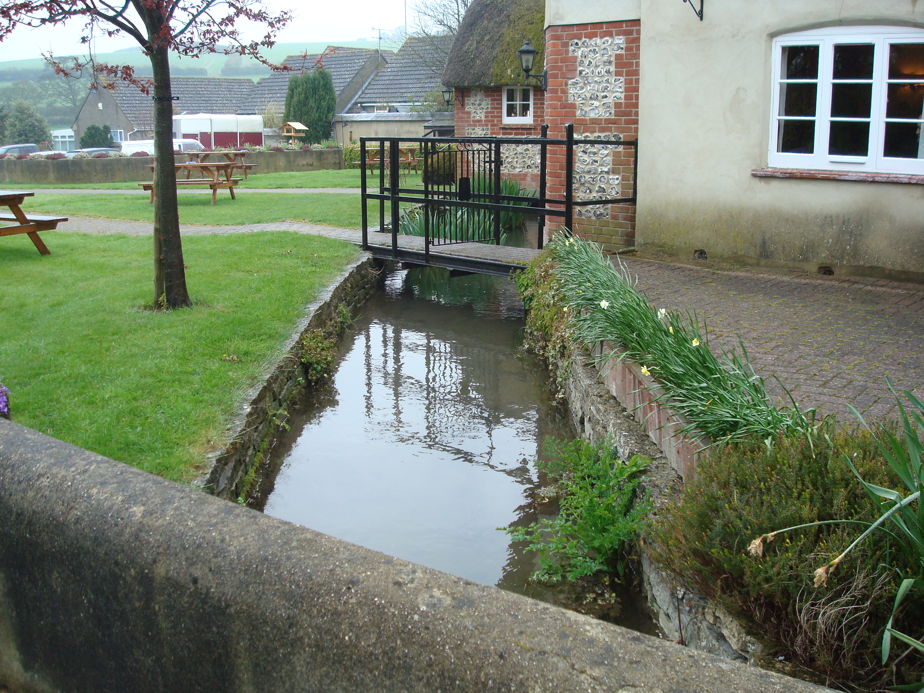 The River Piddle runs through the grounds of the Thimble public house in Piddlehinton. S Knights, my photo, April 2008